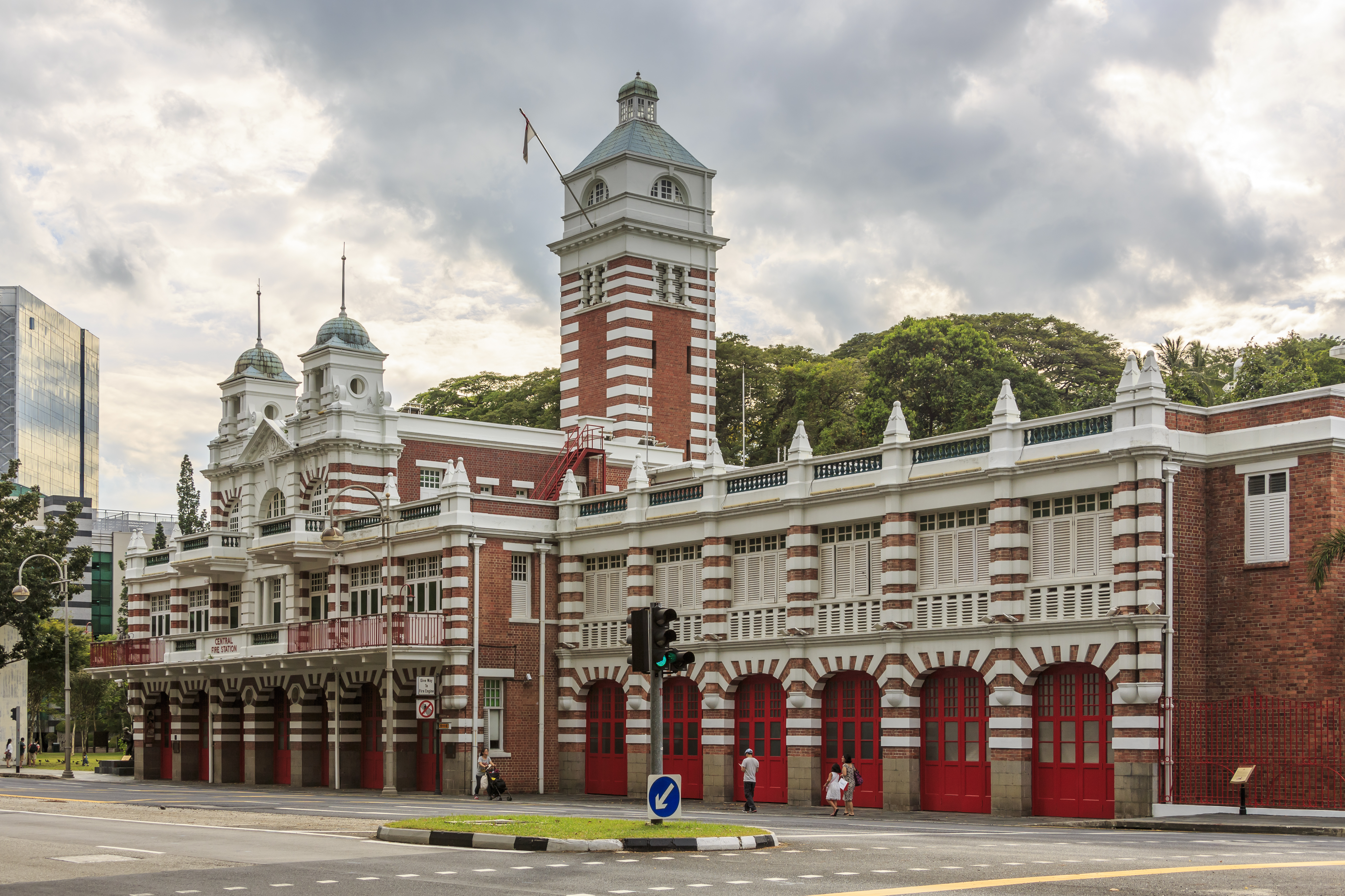 Singapore: Central Fire Station in Hill Street